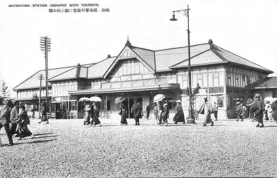 Matsuyama Station in Matsuyama, Ehime pref., Japan.